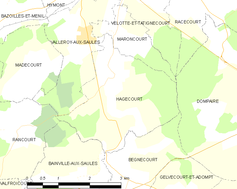 Map of French municipality Hagécourt